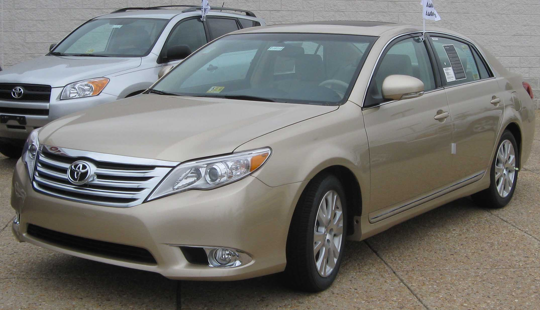 2011 Toyota Avalon photographed in Chantilly, Virginia, USA.